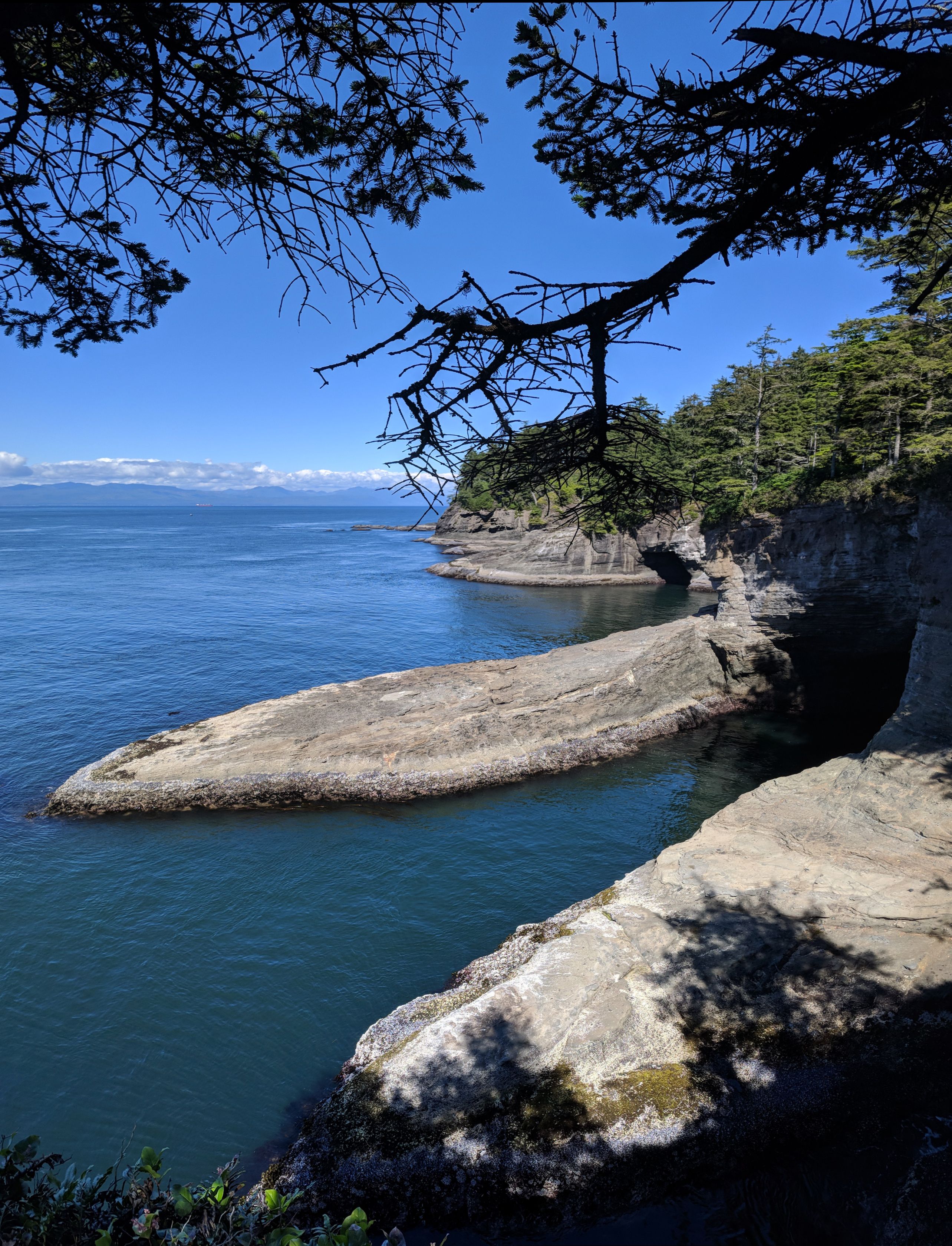 The view to the north from Cape Flattery, with Vancouver Island in the distance